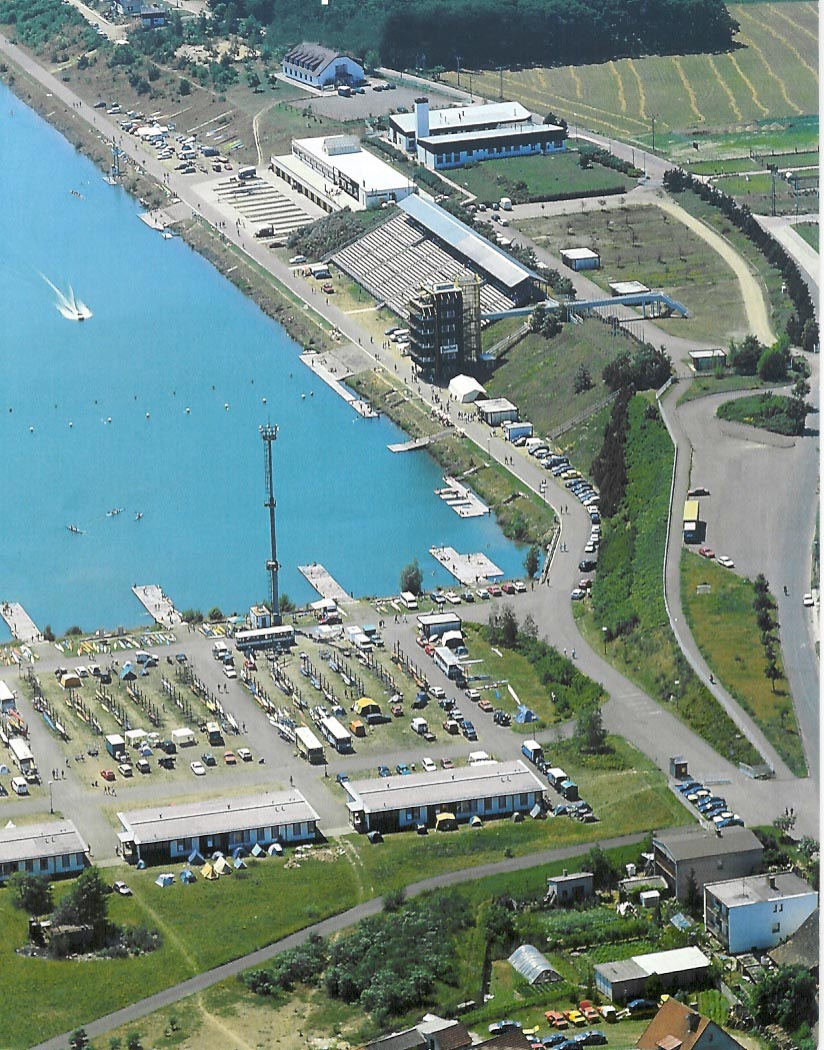 Aerial view of rowing and canoeing course in Račice, Czech Republic.